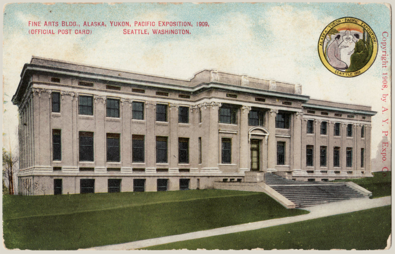 Photo of Fine Arts Hall, now Architecture Hall, on the University of Washington campus in Seattle.